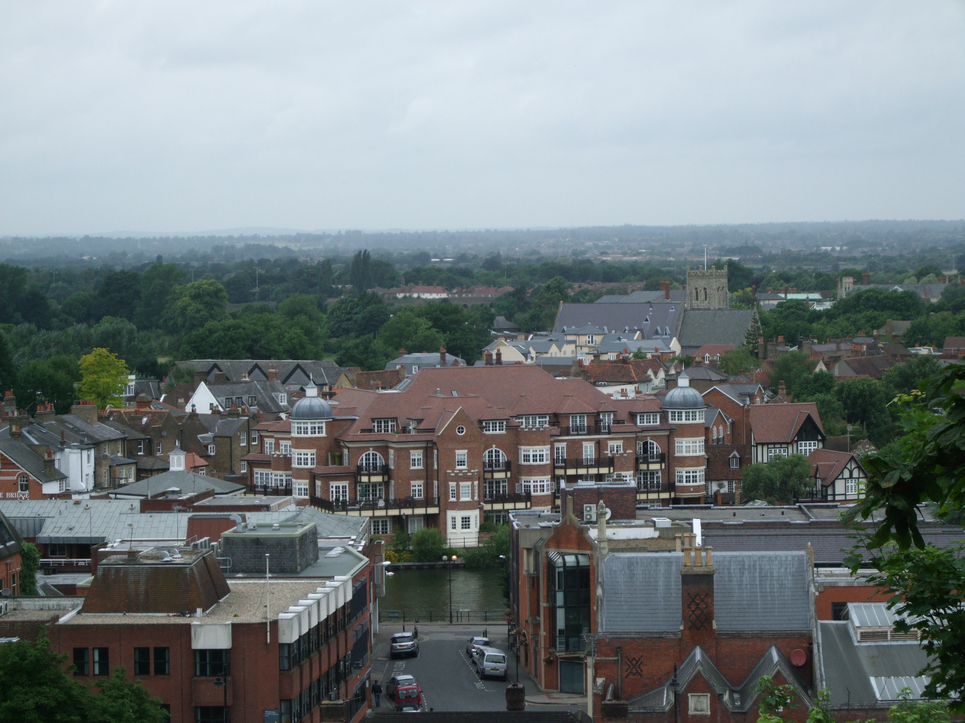 Eton from Windsor Castle